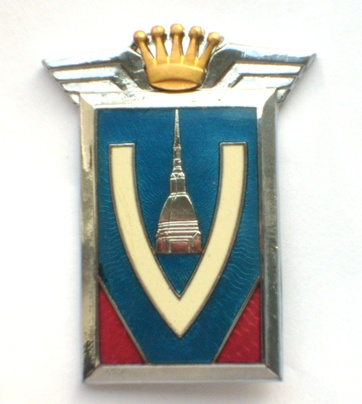 Manufacturer´s Emblem Vignale